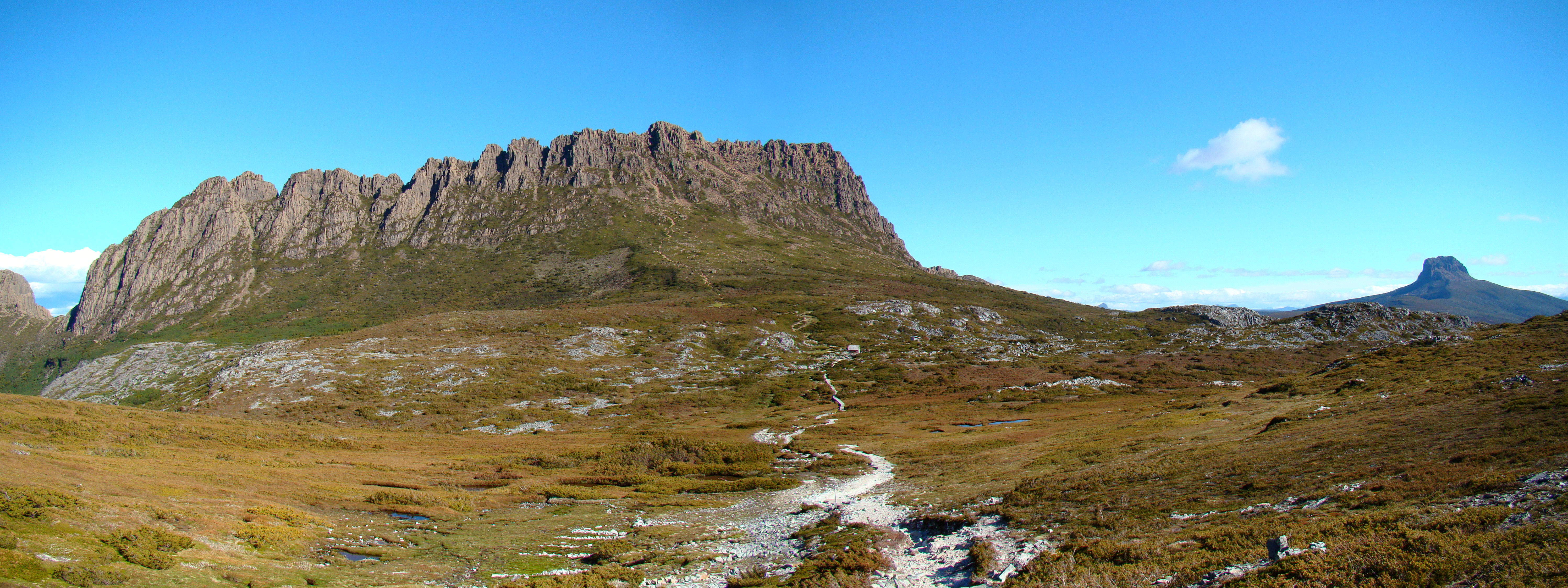 Cradle Mountain as seen from the west. You can see the path leading to the top, going up from Kitchen Hut in the centre of the photo. To the far right is another distinct mountain, Barn Bluff.